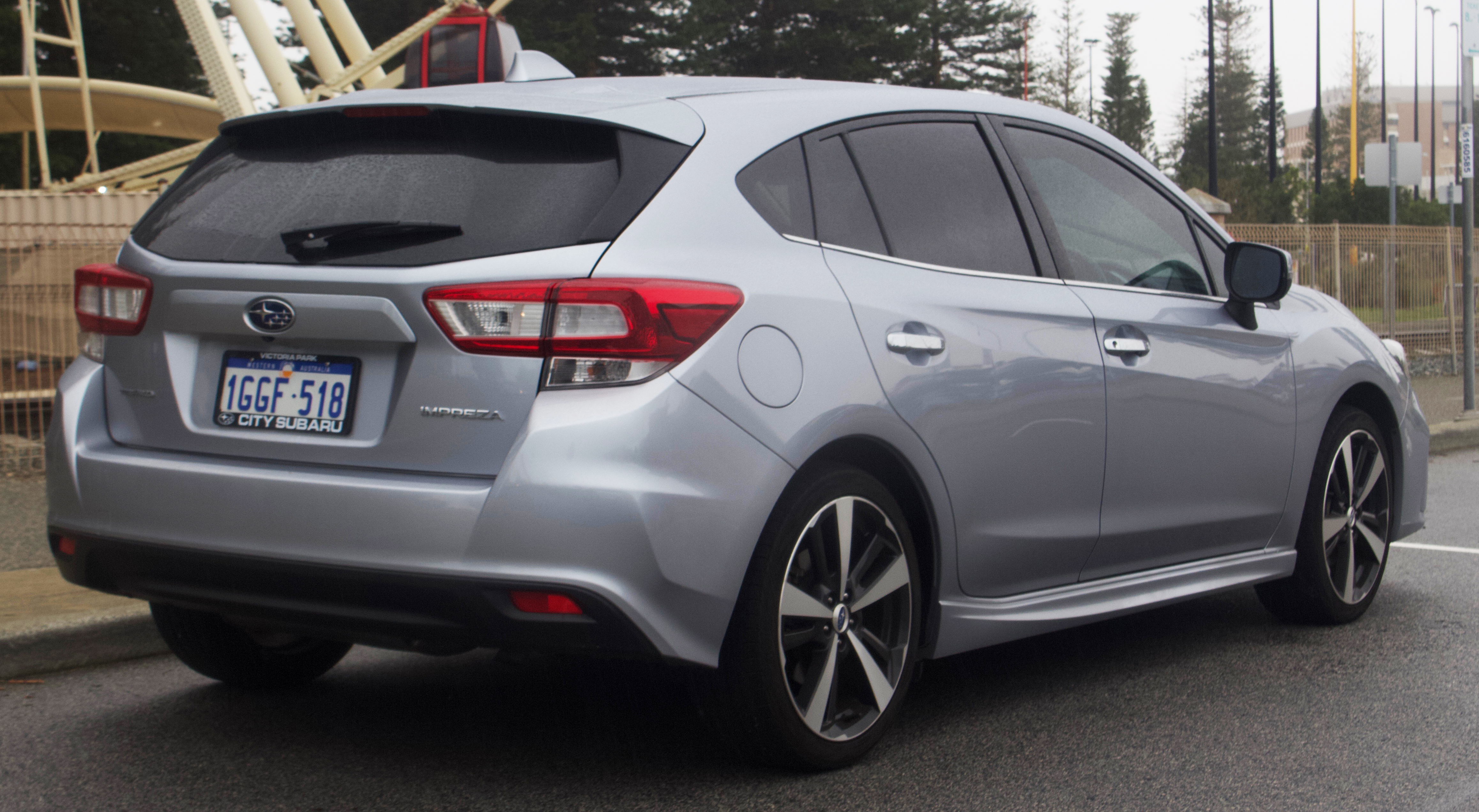 2017 Subaru Impreza (GT7) 2.0i-S hatchback. Photographed in Fremantle, Western Australia, Australia.